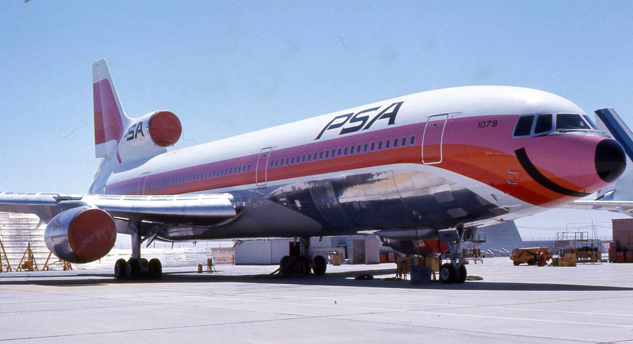 Lockheed L-1011 TriStar N1079 at Palmdale plant before to be delivered to Pacific Southwest Airlines in 1974. This aircraft was operated by PSA for only two years before being returned to Lockheed, who subsequently sold them to Aero Peru, which later again returned them to the manufacturer. It ultimately ended up with World Way Canada and was broken up for spare parts.